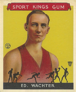 1933 Goudey Sport Kings basketball card of Ed Wachter #5. PD-not-renewed.